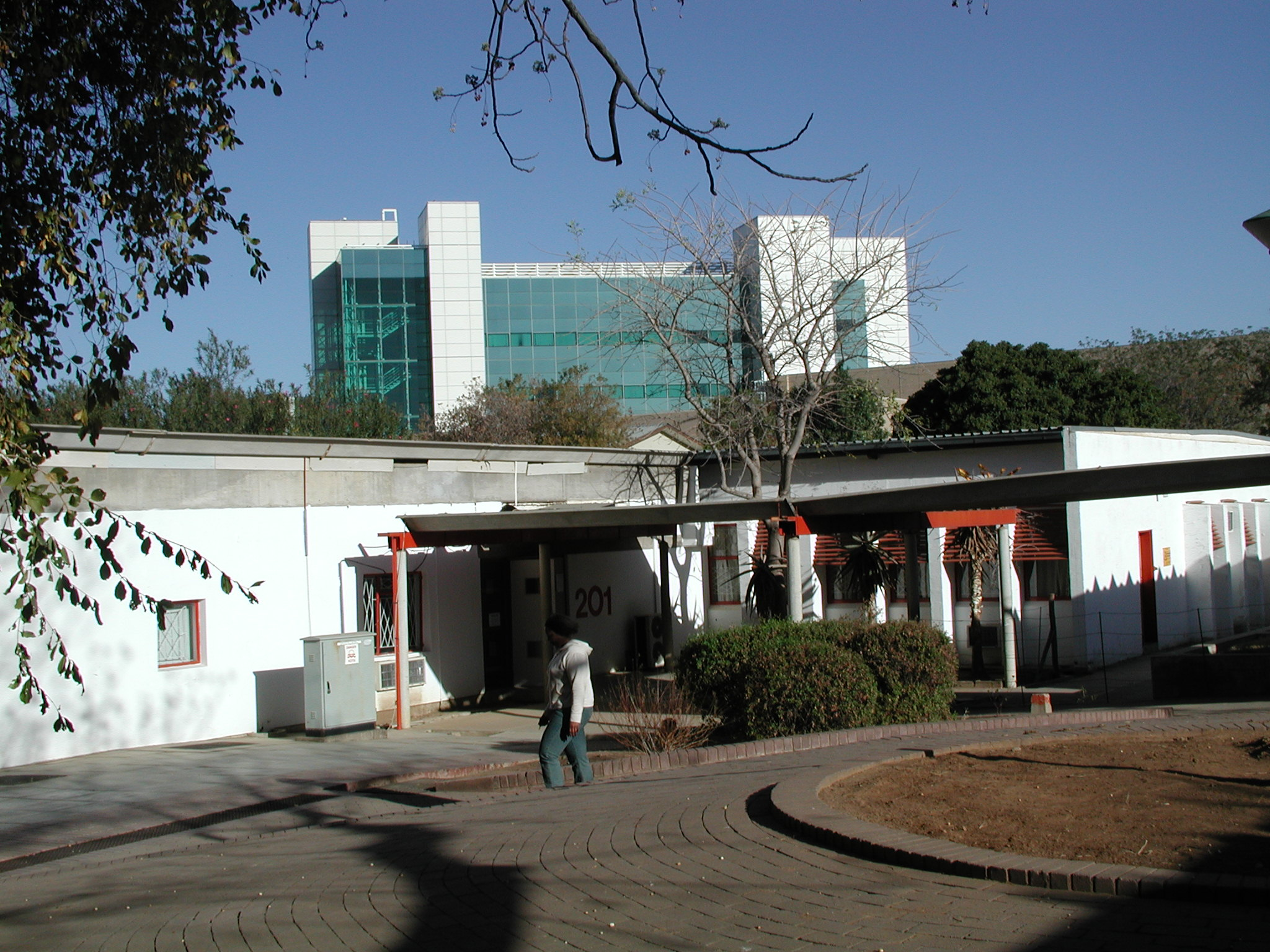 University of Botswana buildings in Gaborone, Botswana. The contrast between the old UB (foreground) and the new UB (background) reveals the country's recent economic growth.